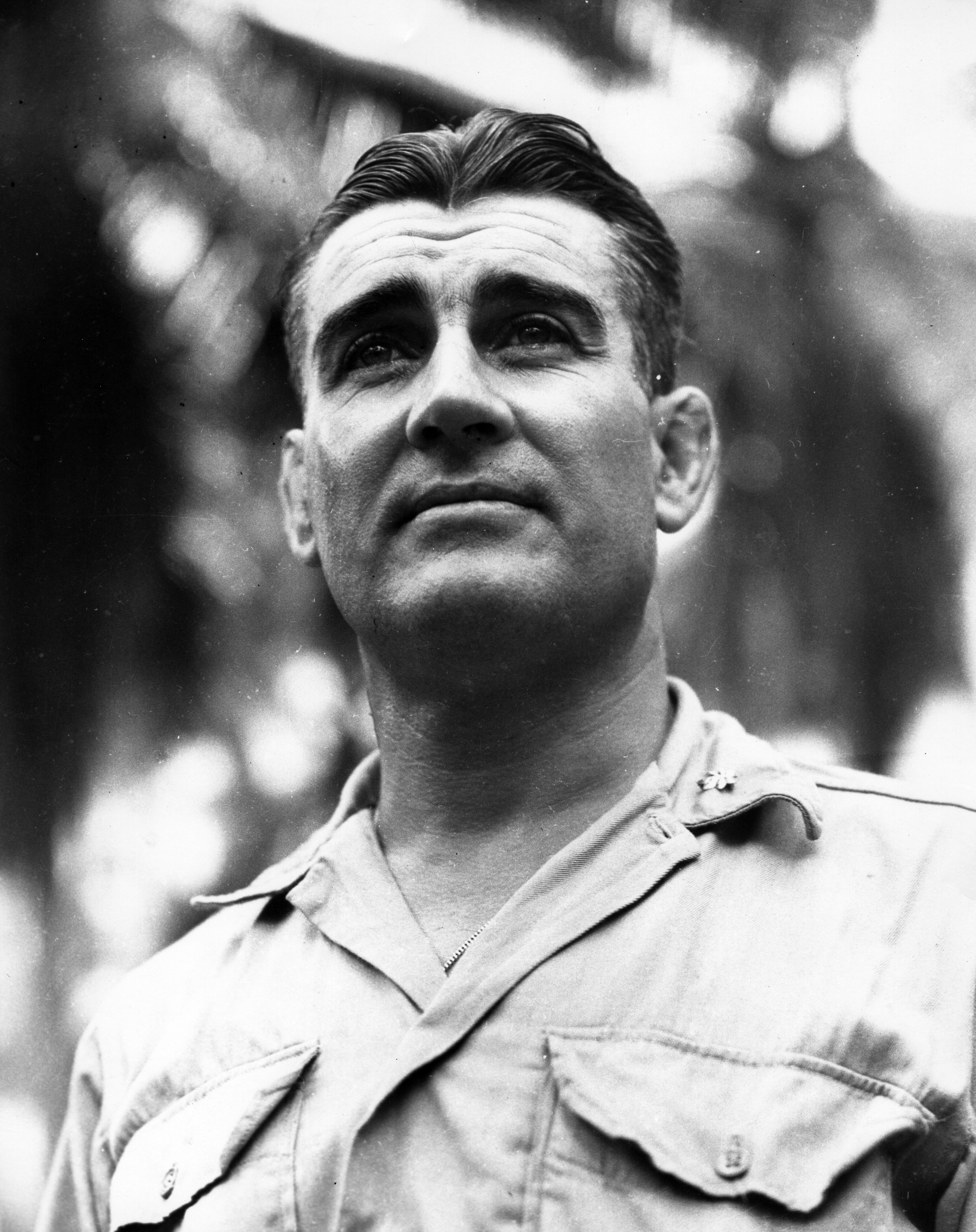 Arthur H. Butler as lieutenant colonel somewhere in Pacific area during World War II.